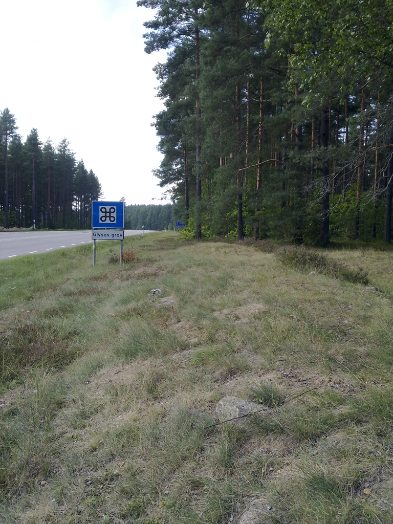 Glysa's grave is a ship-formed flat burial cairn in Katrineholm Municipality, Södermanland, Sweden.